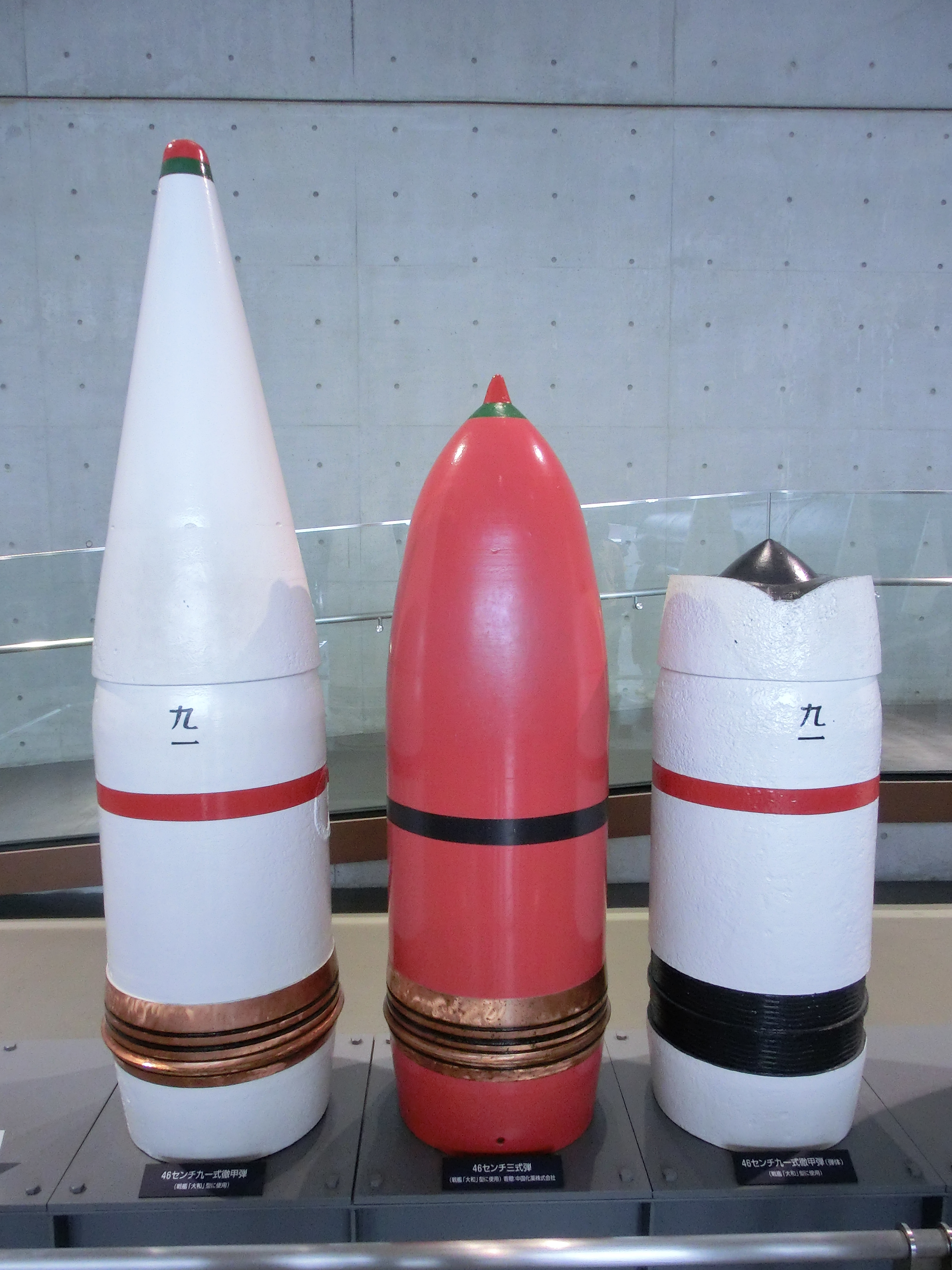 Yamato-class 46cm Type 91 AP shell (left), 46cm Type 3 Incendiary Shrapnel shell (center) and 46cm Type 91 AP shell body (right)